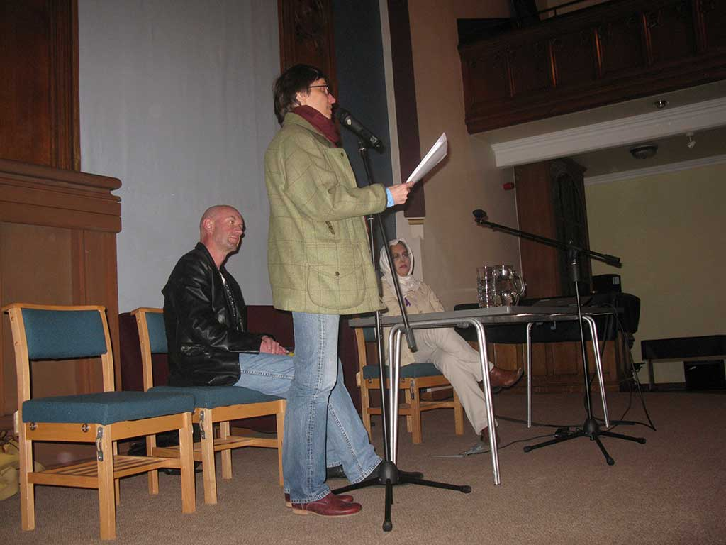 AL Kennedy reads Syed Tahla Ahsan's poerty at the launch of his poetry booklet in Edinburgh 28 February 2011